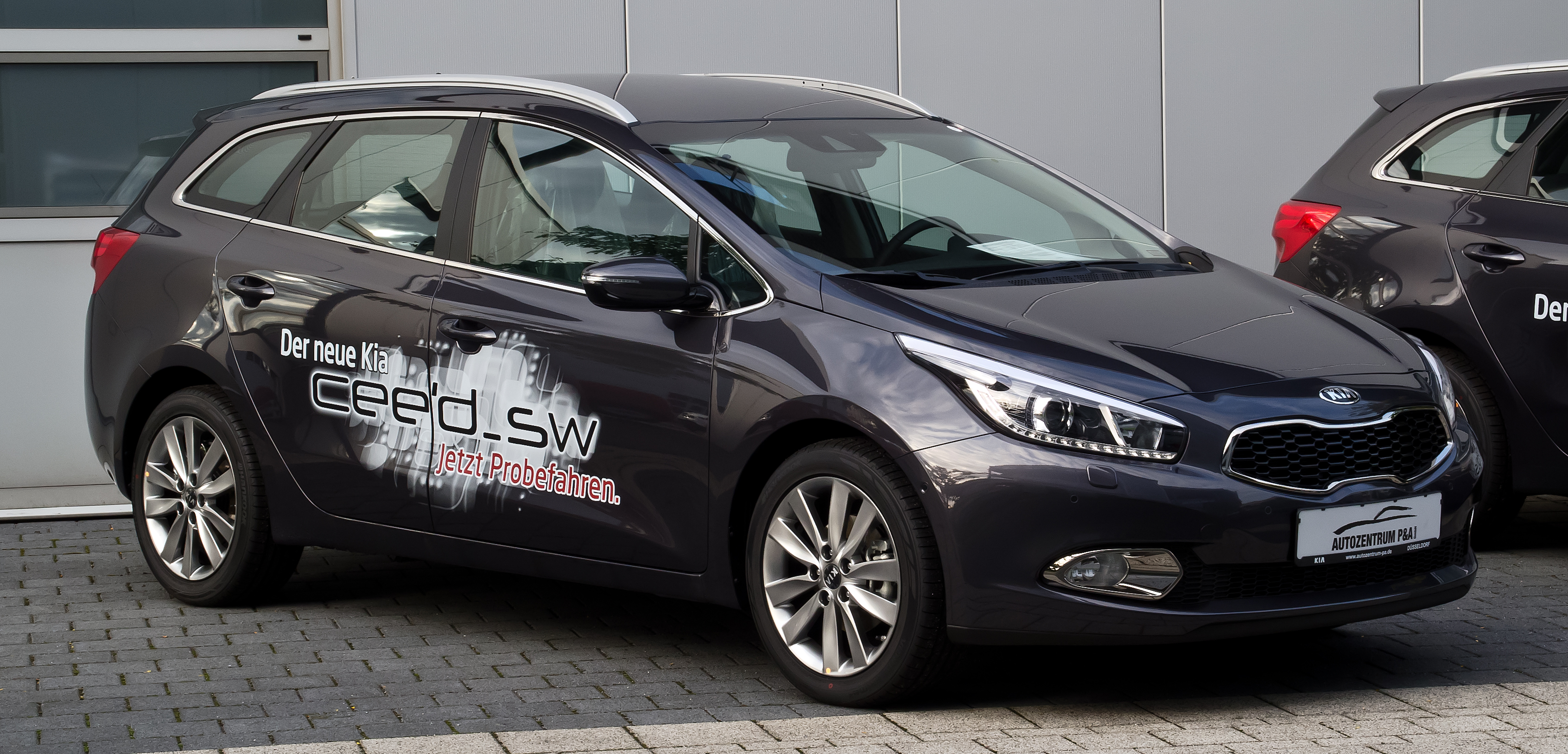 Kia cee'd sw 1.6 GDI Spirit (EU)